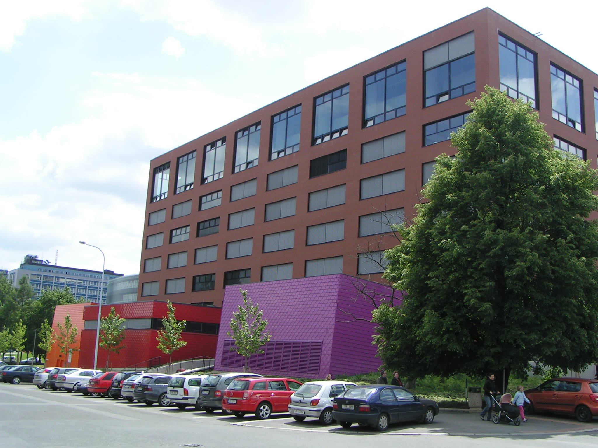 CTU - New Building Dejvice, Prague, lecture halls